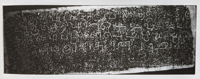 Siva Devale 2 Tamil inscription 2